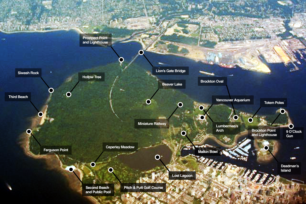 Stanley Park Labeled Aerial Map, by Soggybread